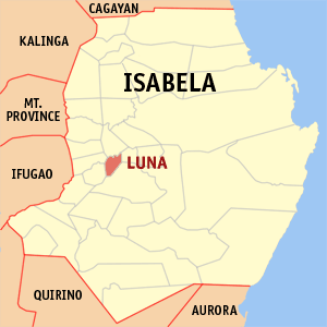 Map of Isabela showing the location of Luna